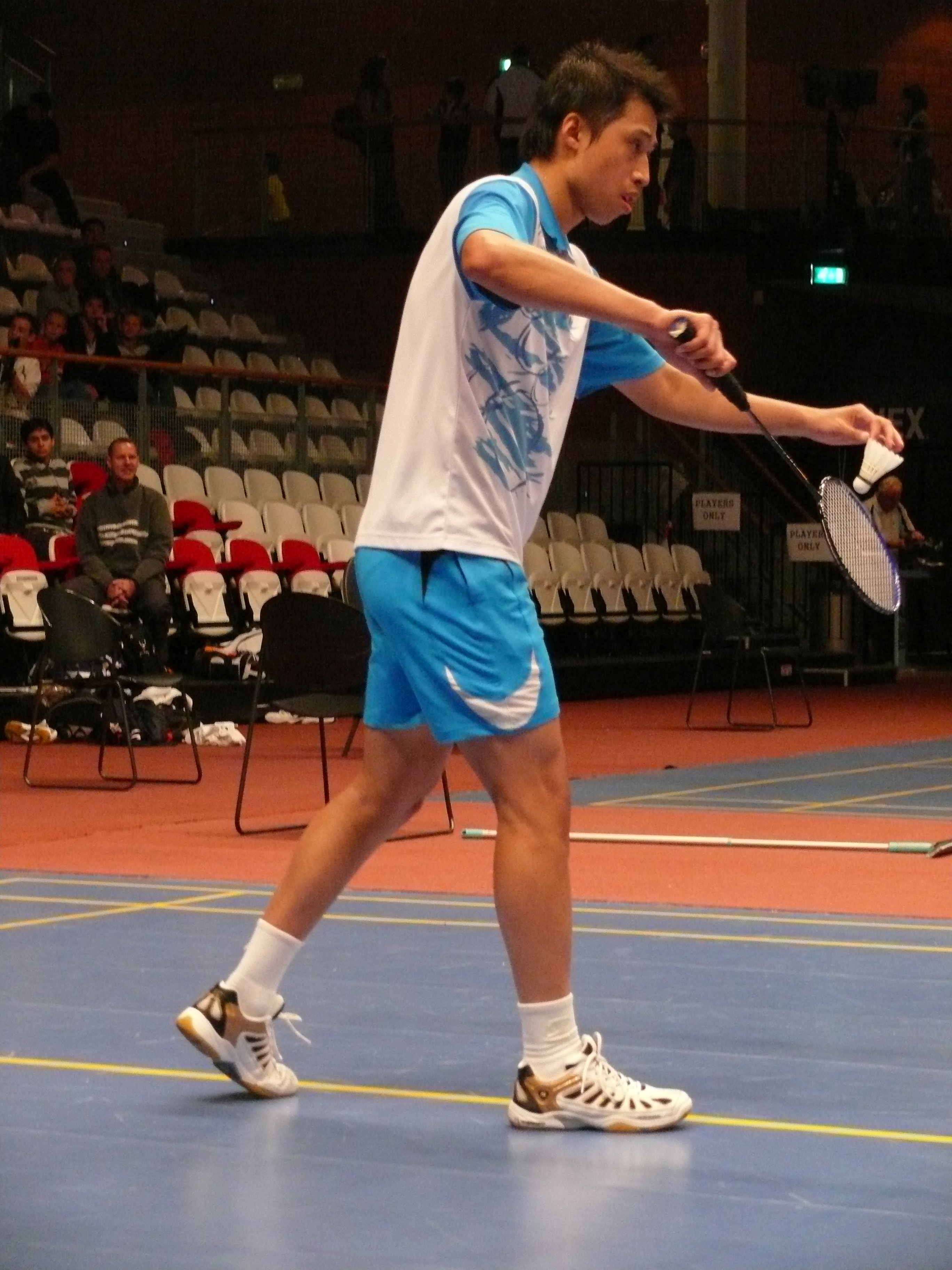 Wu Yunyong (China)